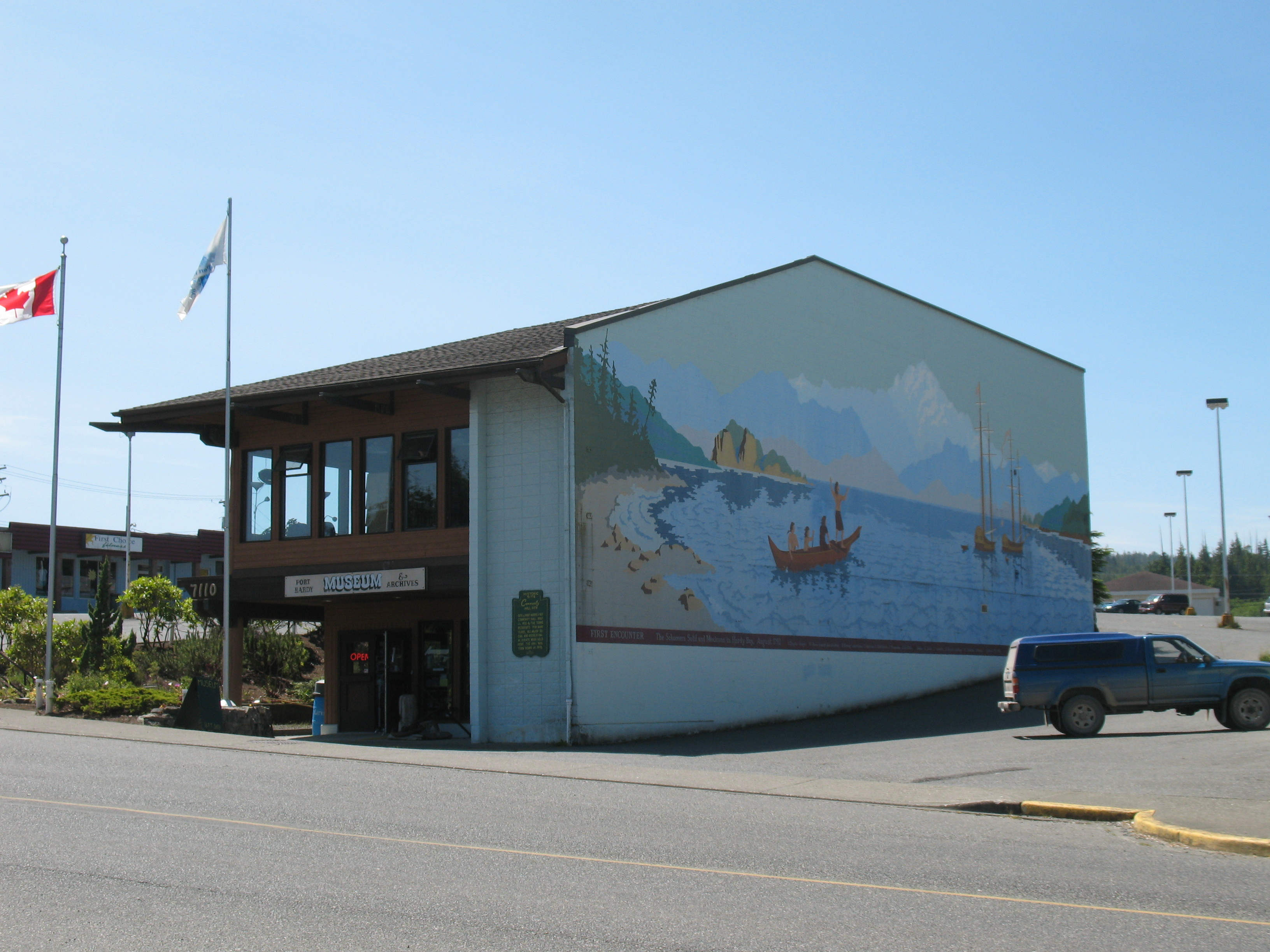 museum and archives of Port Hardy, Vancouver Island